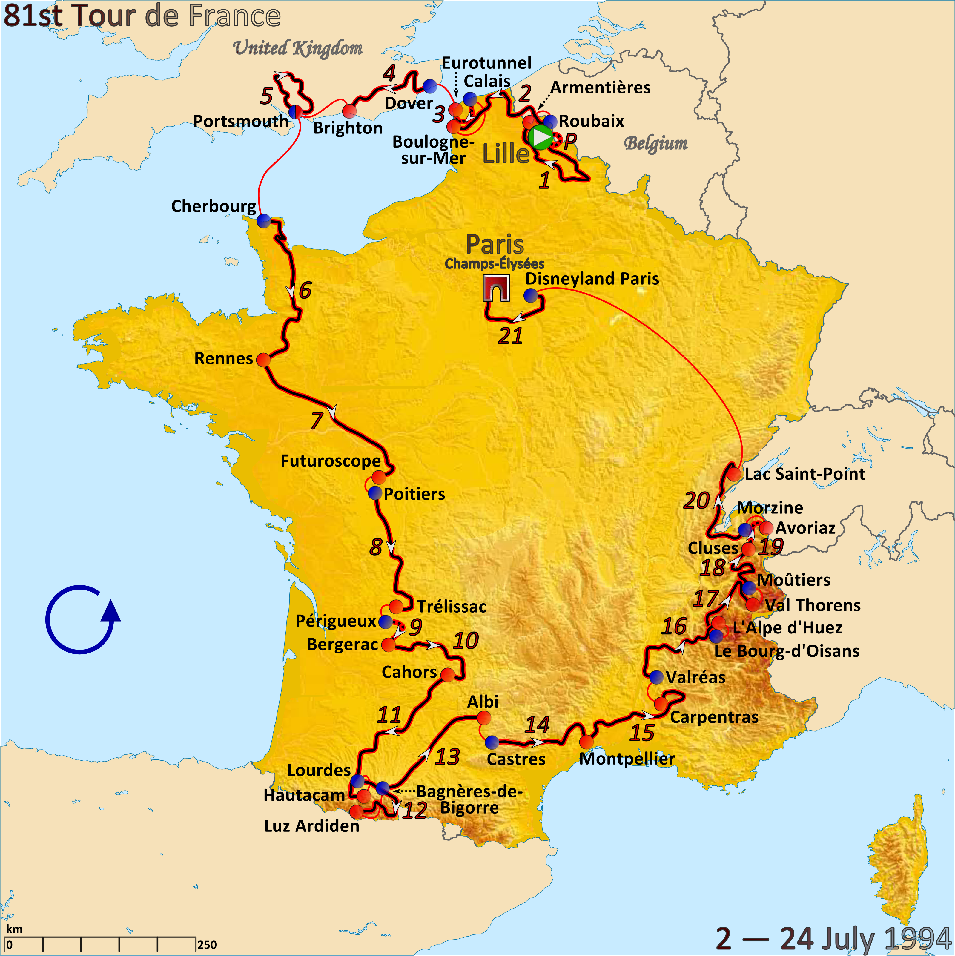 Map created in Inkscape of the 1994 Tour